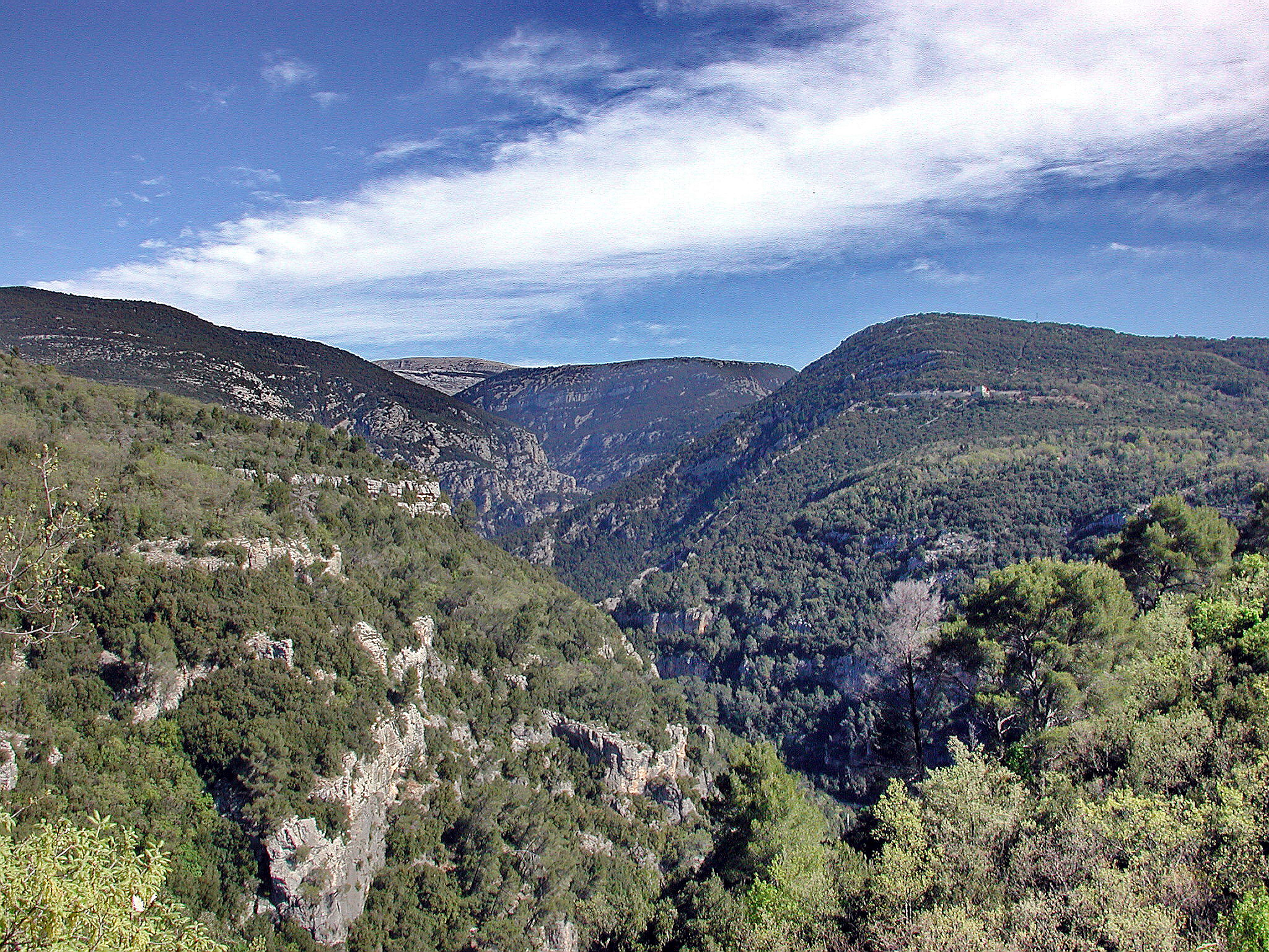 Siagne valley, Malines's woods